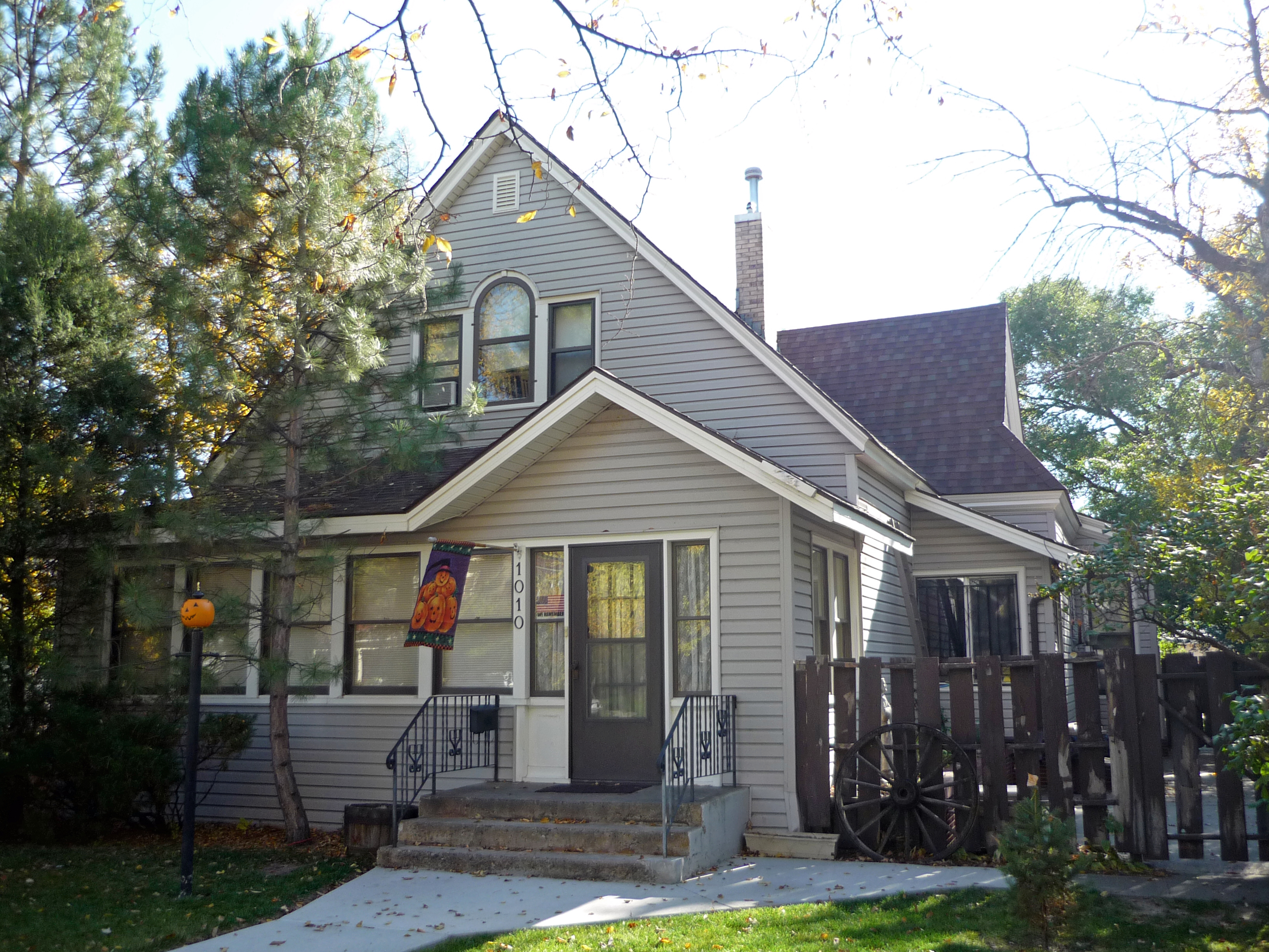 Furstnow House, National Register of Historic Places building in Miles City, Montana